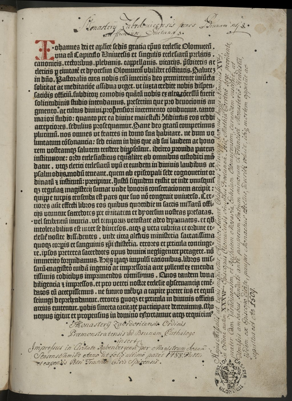 Title page of the Missale Olomucense (1488).